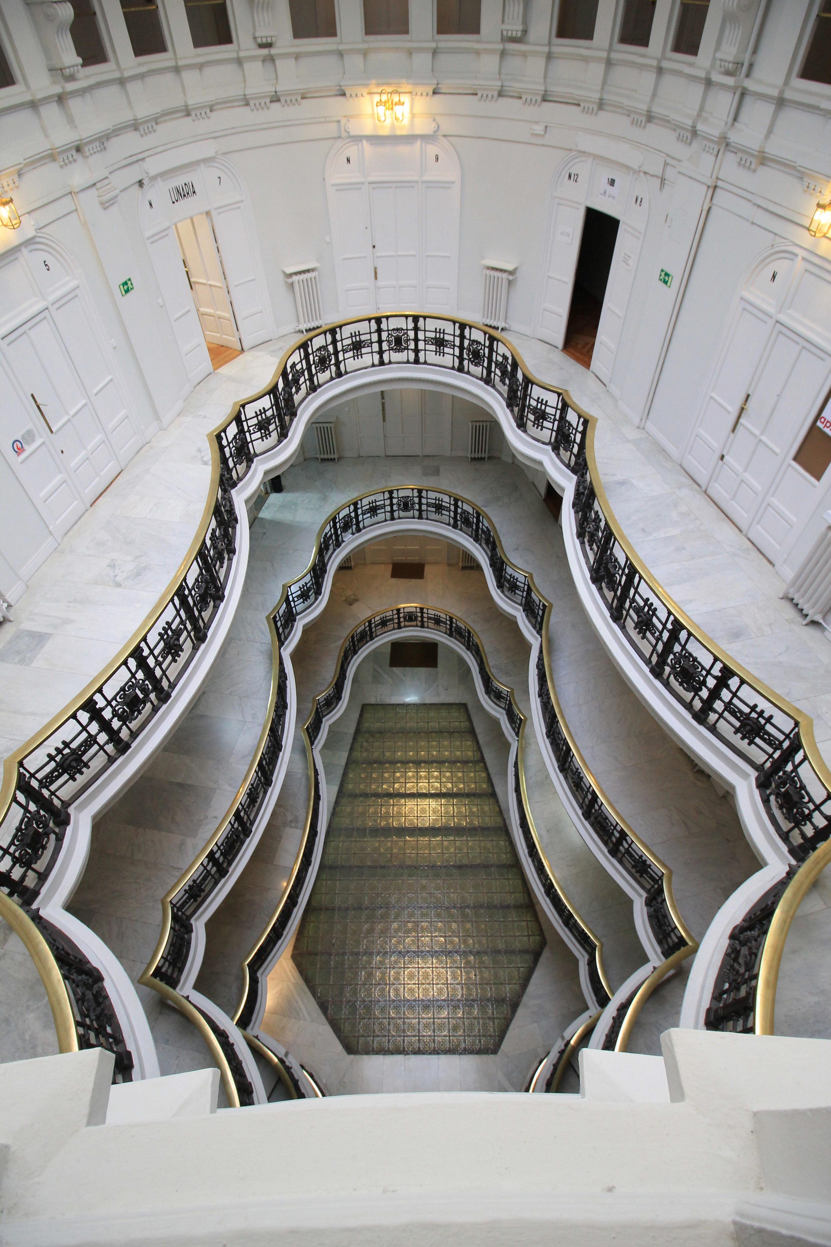 Interior of Casa Palazuelo in Madrid (Spain).